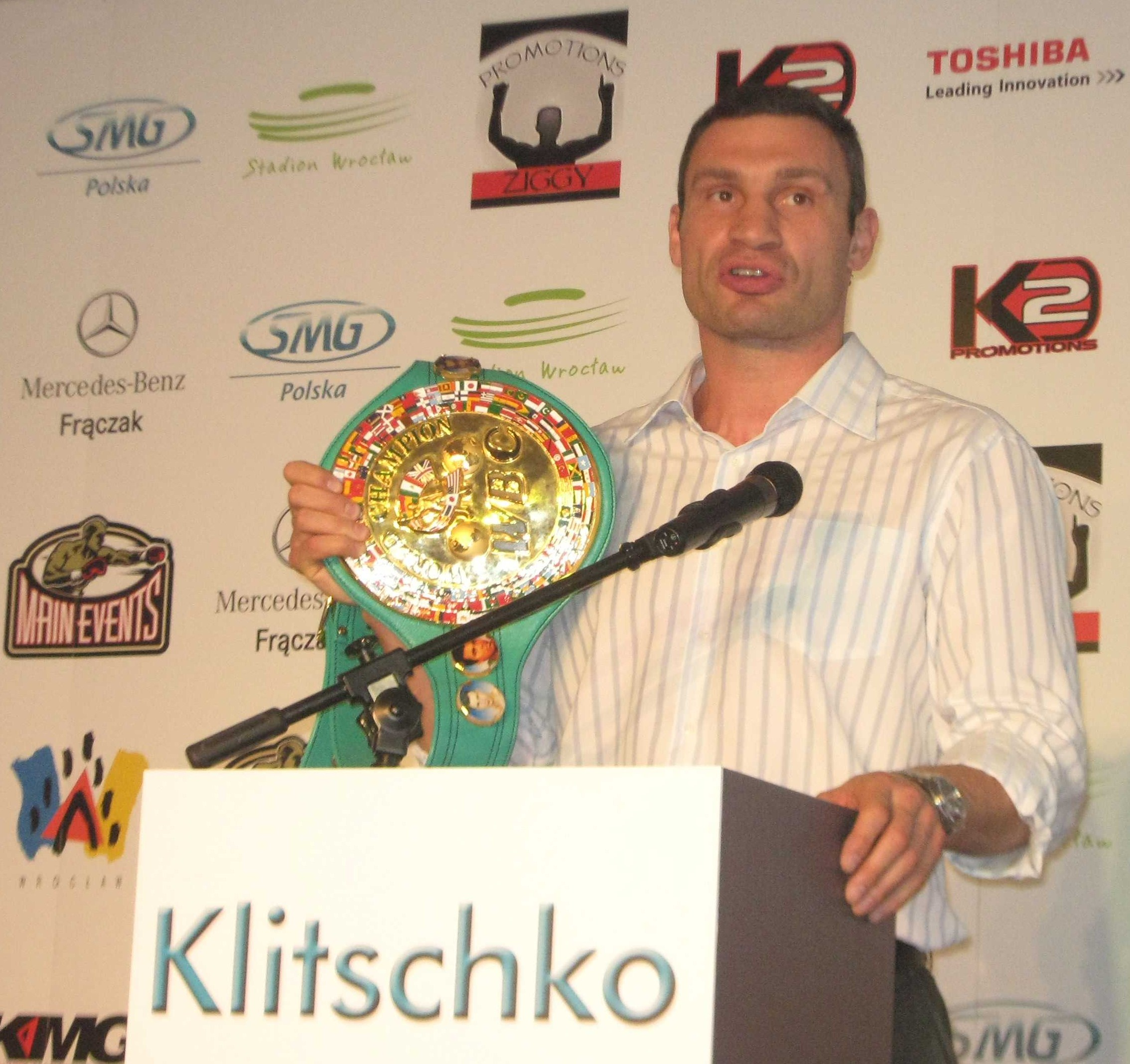 Vitali Klitschko, boxer from Ukraine. During signing for the fight with Tomasz Adamek (Polish boxer)